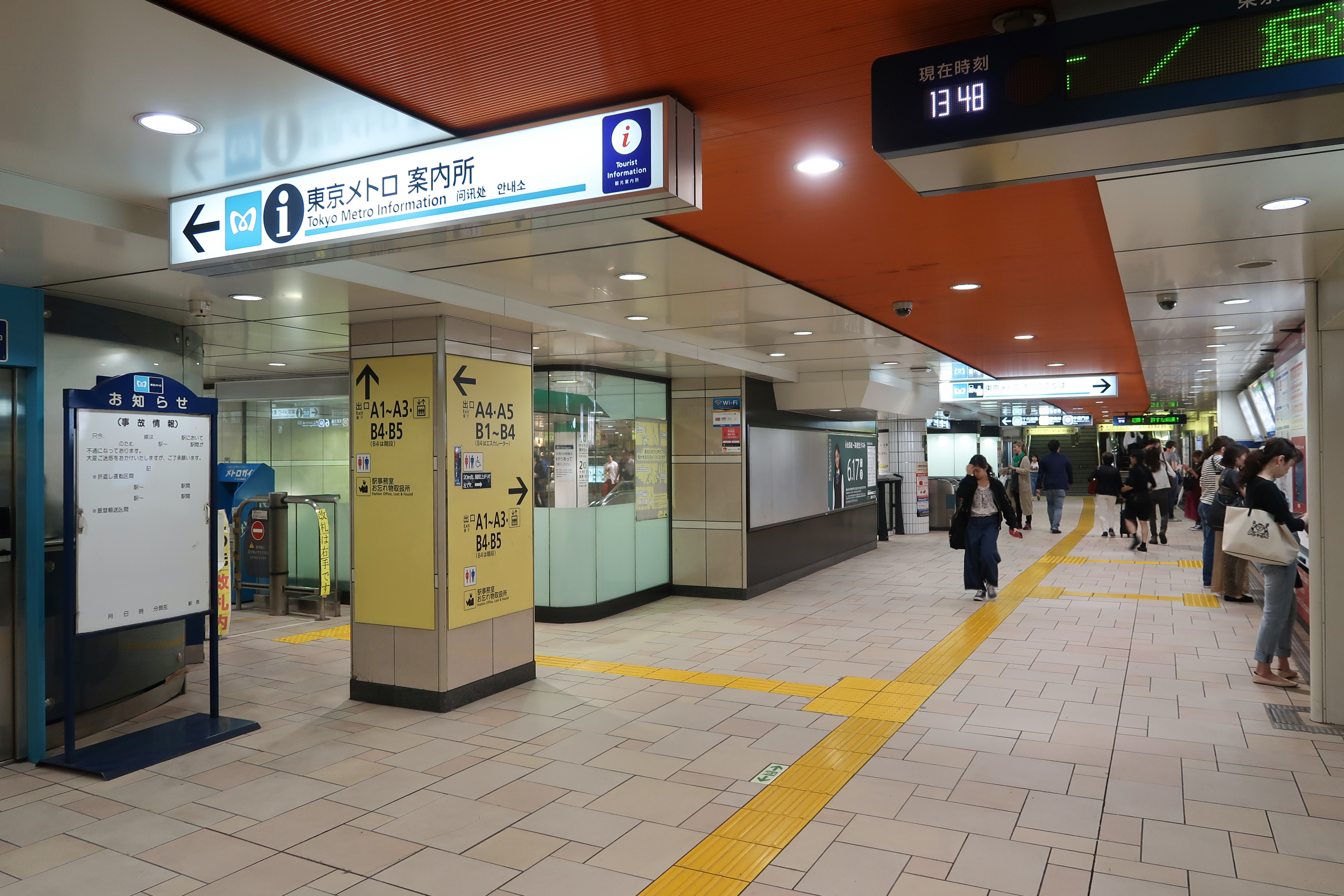 Omotesando Station Chiyoda Line Concourse